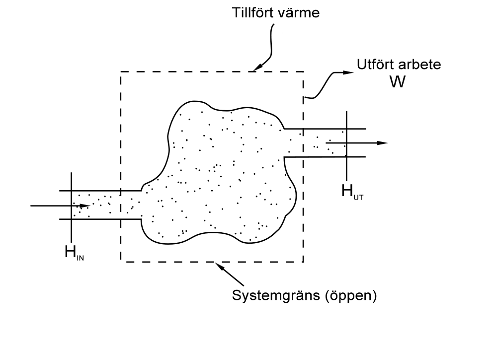 (from DOE-HDBK 1012/1-92 (1992) "DOE Fundamentals Handbook: Thermodynamics, Heat Transfer, and Fluid Flow, Volume 1 of 3." US Department of Energy, Washington DC, p. 76, . Removed and added nomenclature.) "Approved for public release; distribution is unlimited"